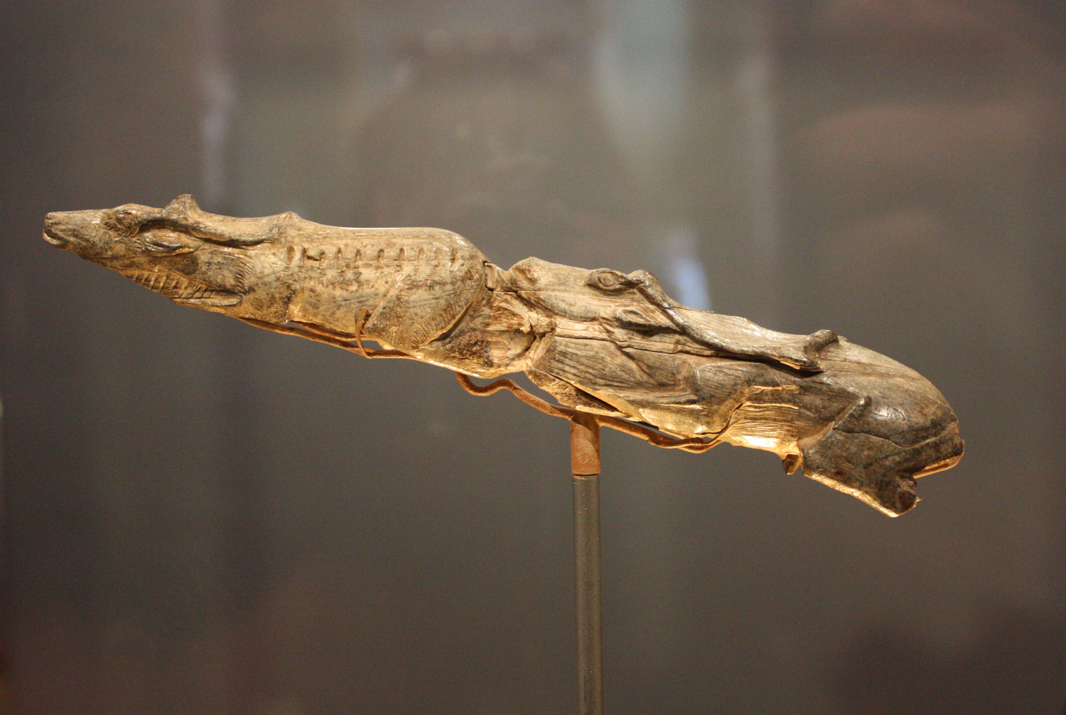 Swimming Reindeer Worth viewing large... Seen at The British Museum - This amazing sculpture is made from mammoth From the British Museum website: "This carving of swimming reindeer is one of the most beautiful pieces of Ice Age art ever discovered. It is a carved from the tip of a mammoth tusk and is around 13,000 years old. This places it at the end of the Last Ice Age, when animals such as mammoths, reindeer and wolverines roamed Europe. The sculpture depicts two reindeer that appear to be swimming and was found in Montastruc in central-southern France. When it was first exhibited in Paris in 1867, the intricate carving proved that humans lived alongside Ice Age animals and had imaginative minds, the same as modern humans. The sculpture is not a functional item for everyday use but a work of art made by people who lived as part of nature and depended on reindeer for their survival. As well as being a source of food, reindeer skins were used for clothing, blankets and tents and their bones and antlers were used for the manufacture of tools and weapons. The naturalism of the sculpture reveals that the artist had a hunter’s knowledge of the animals, as well as a keen aesthetic awareness. "